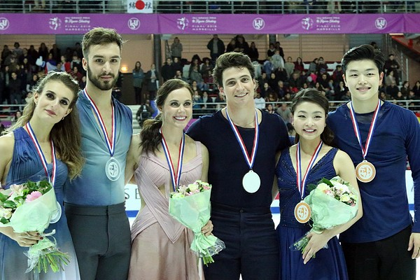 Winners in Ice Dance at the 2016 Grand Prix Final